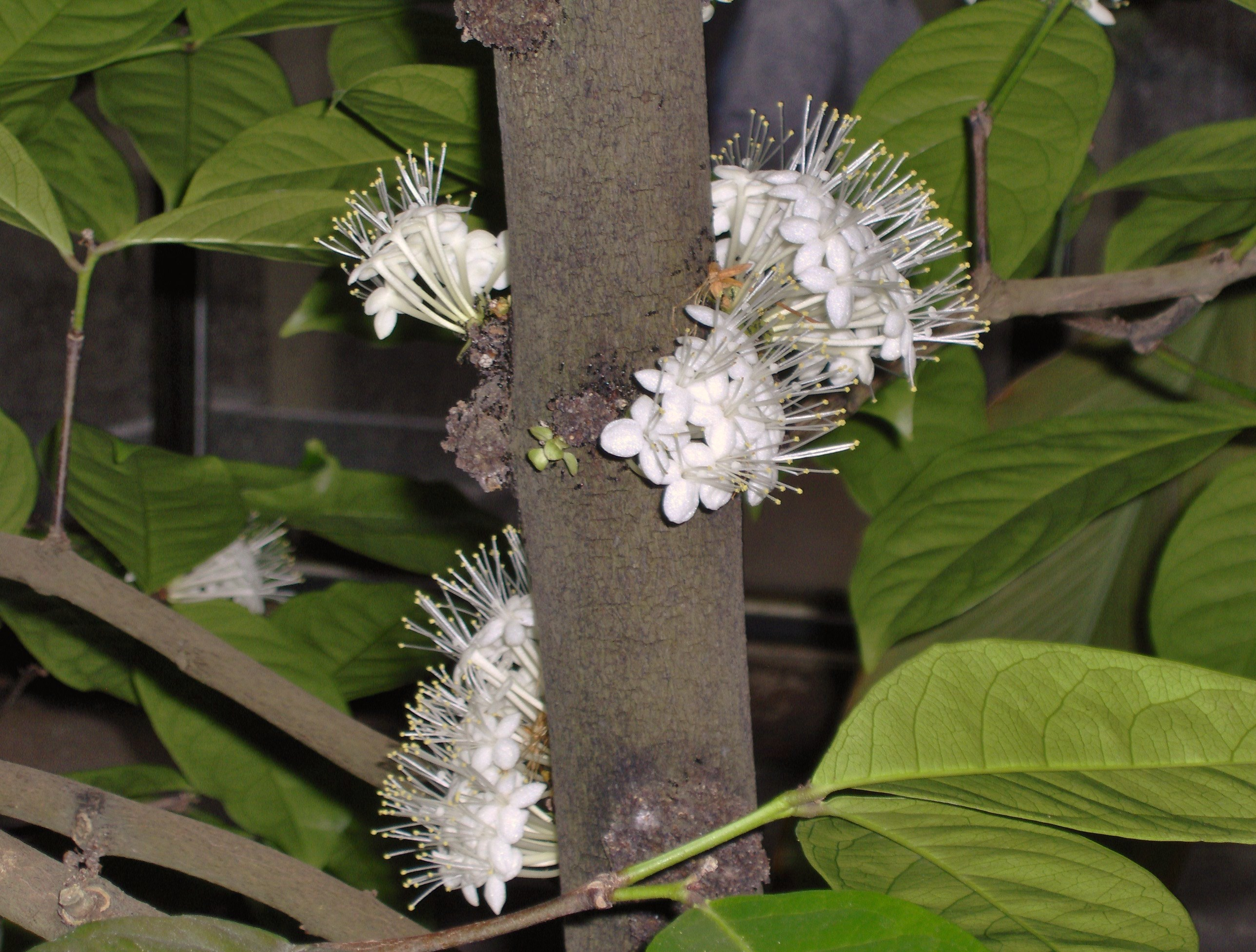 The flowers of a Phaleria capitata Jack (Thymelaeaceae family), origin of plant: Sumatra, Indonesia.